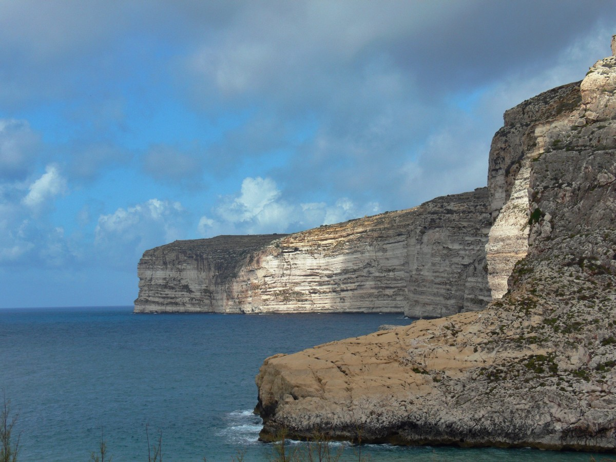 Cliffs near Xlendi, Gozo